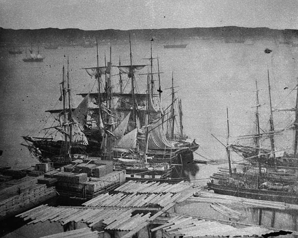 Ships loading timber quebec city ca1860-1870. (George Robinson fonds) C-090135